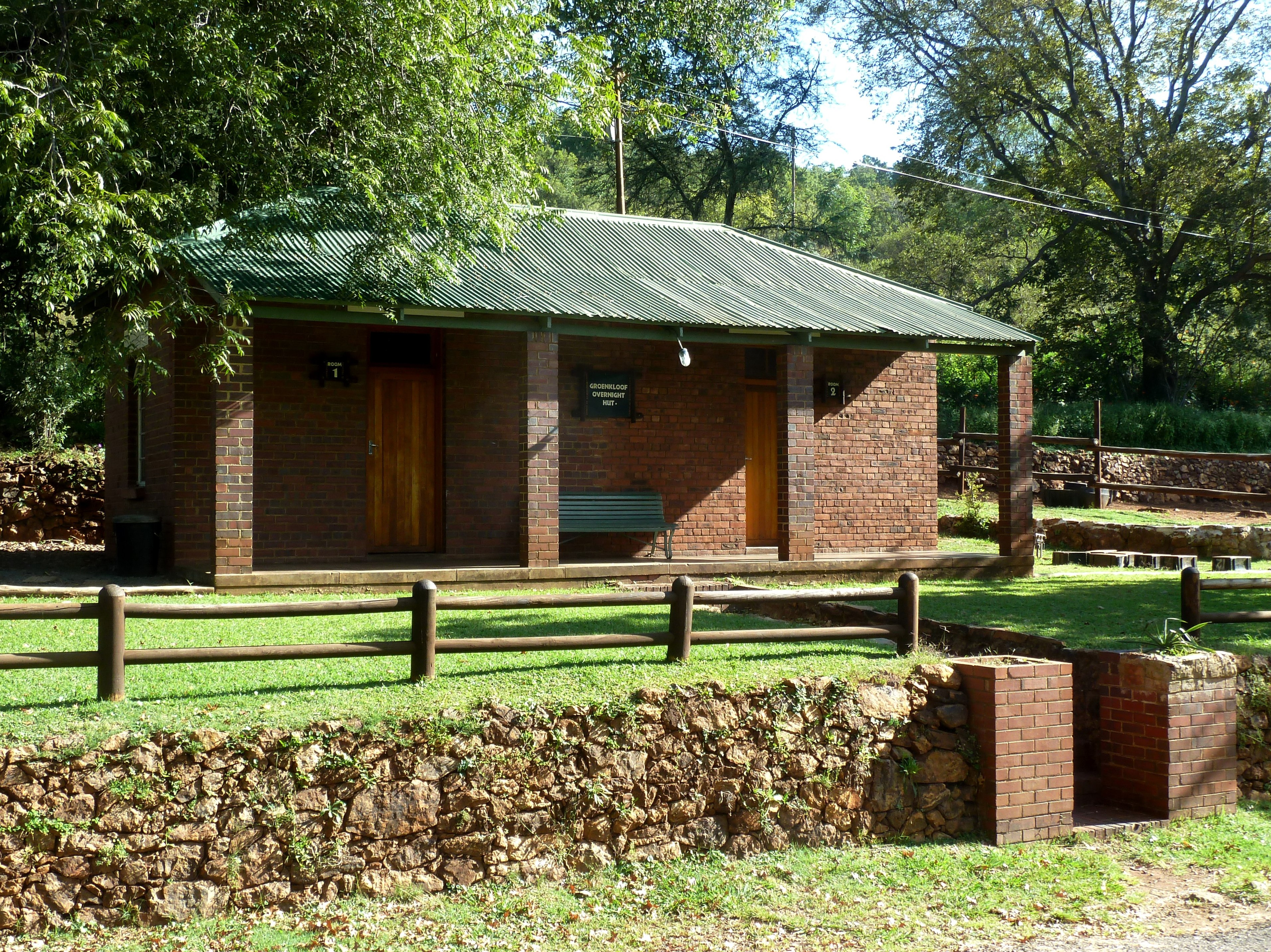 Groenkloof overnight hut for hikers in Groenkloof Nature Reserve